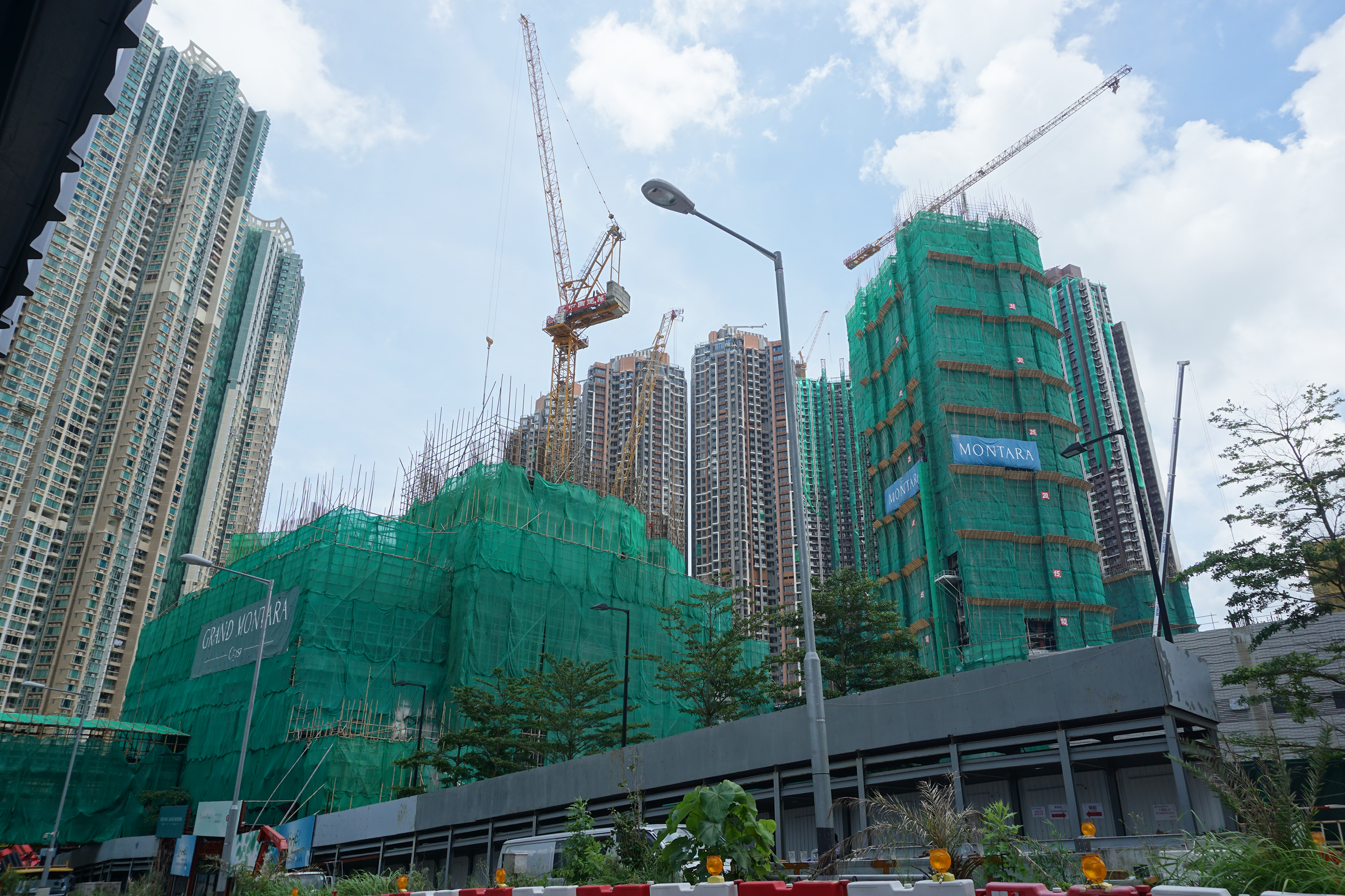 Montara in LOHAS Park, Hong Kong.